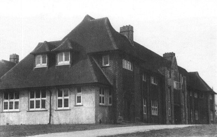 Old photograph of Aberbeeg Hospital